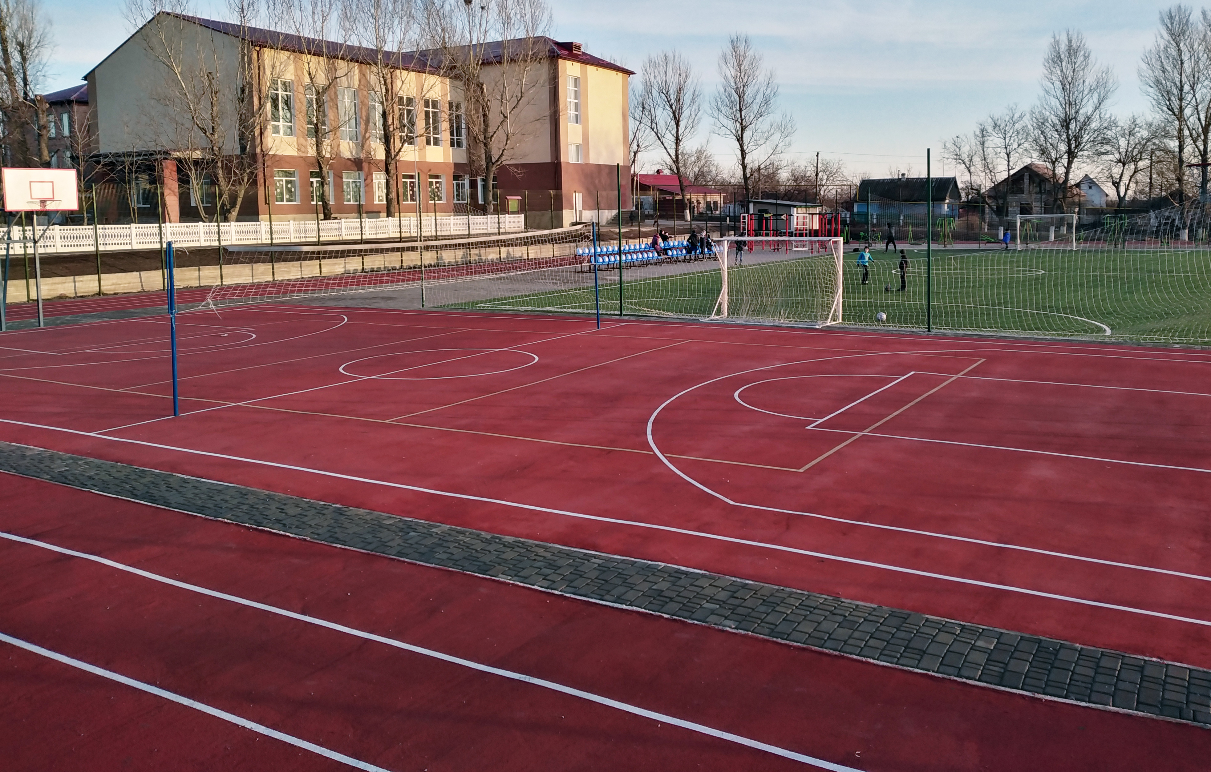 Source = Own work | Author = Eugene Zvarich